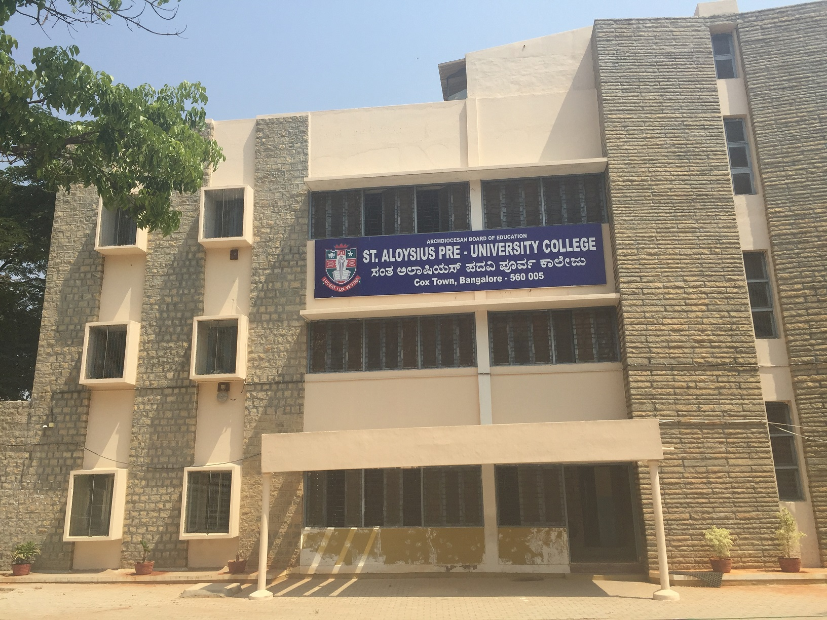 St. Aloysius PU College, Bangalore